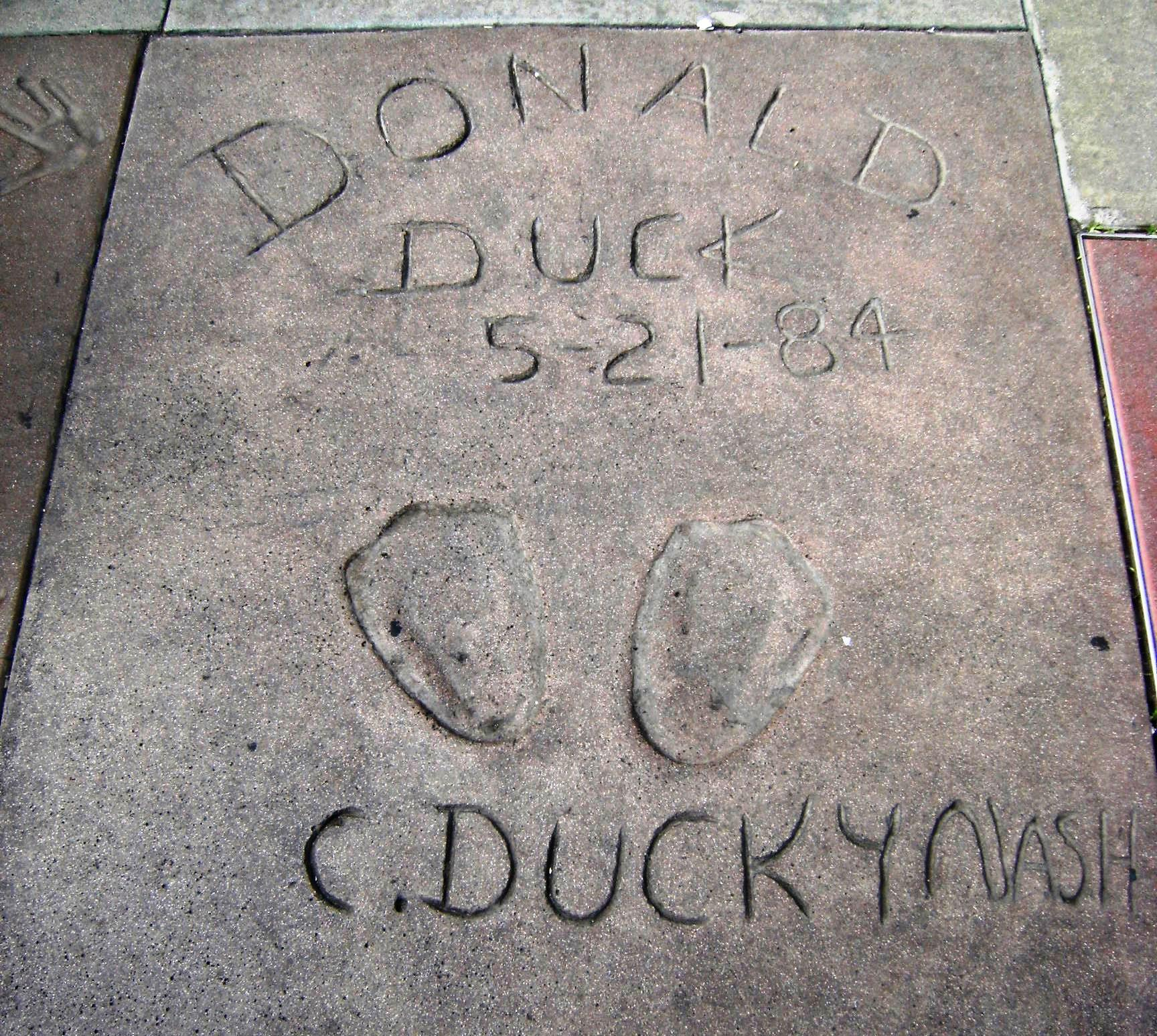 "Footprints" of Donald Duck, made by Clarence Nash, at the Grauman's Chinese Theater in Hollywood California